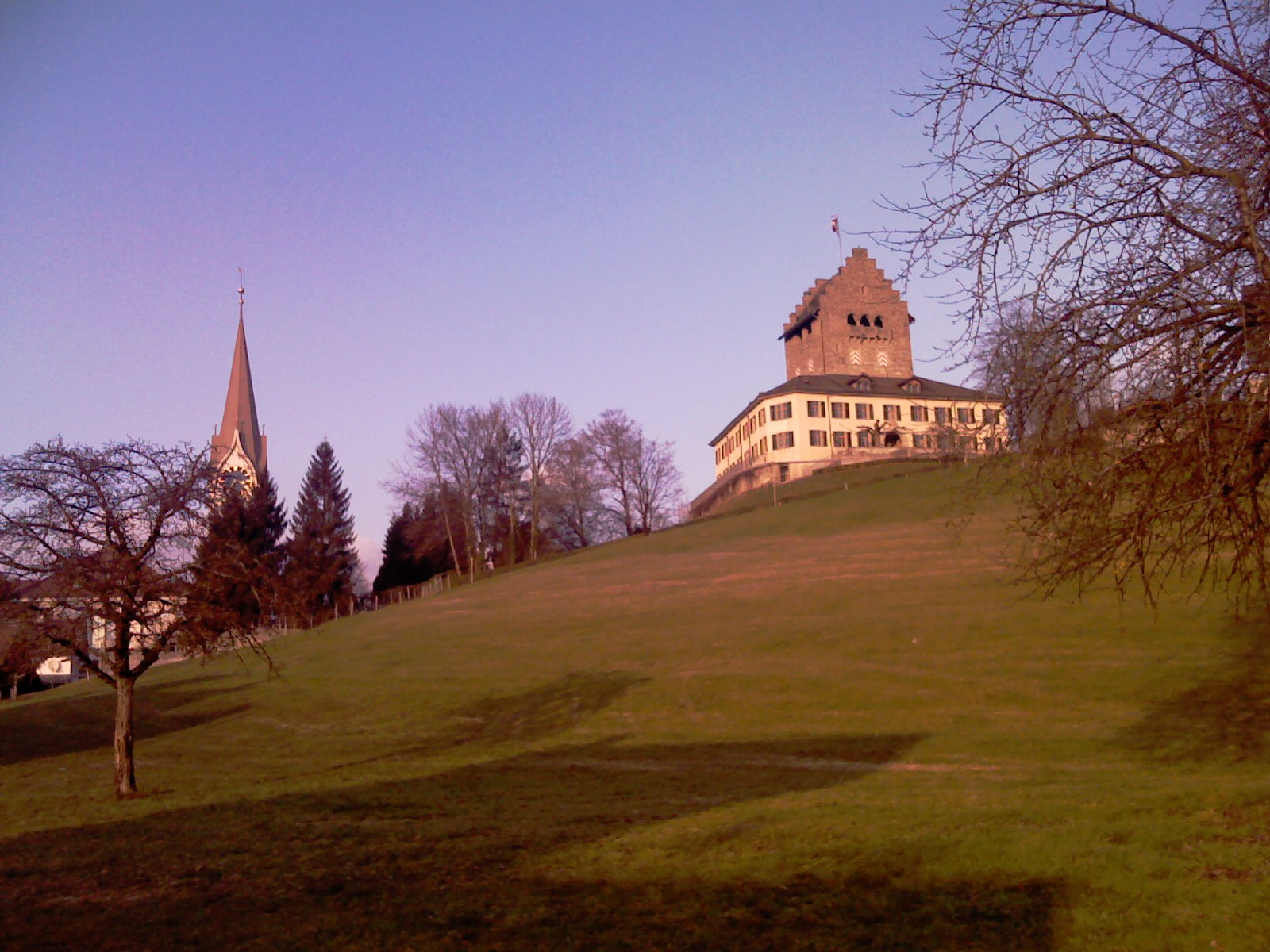 Uster - Church and castel, seen from Nossikon